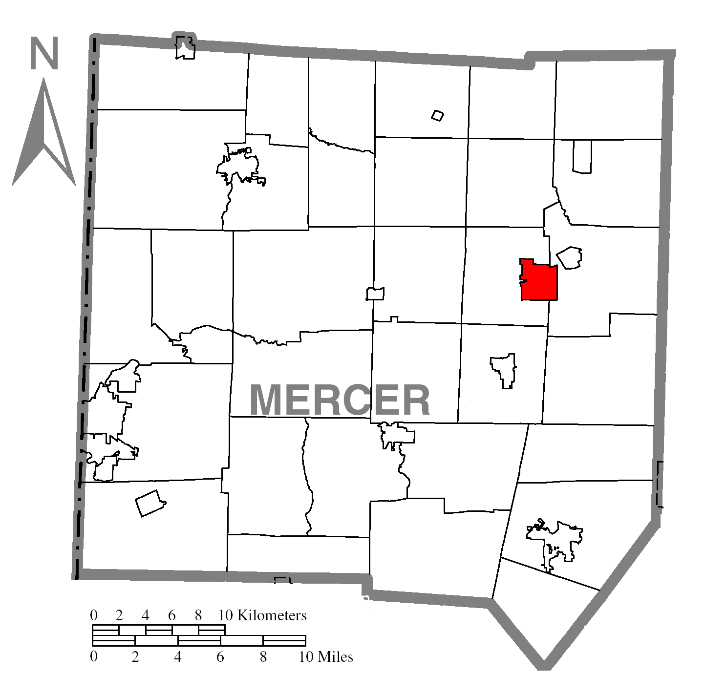 Map of Mercer County higlighting Stoneboro.